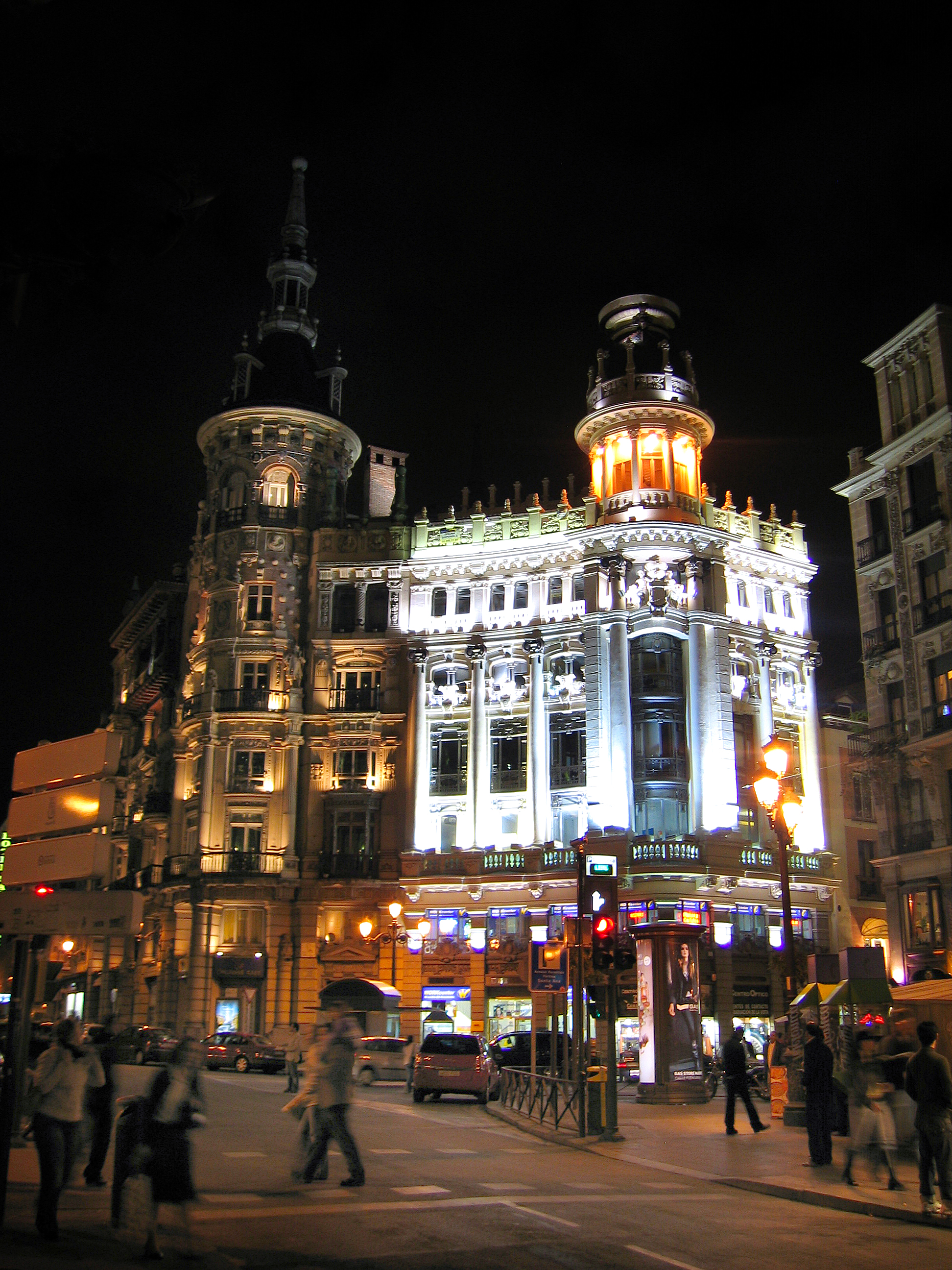 Night view of Plaza de Canalejas (square) in Madrid, Spain. Left: Casa de Don Tomás de Allende ("Don Tomás de Allende's House"). Right: Edificio Meneses.